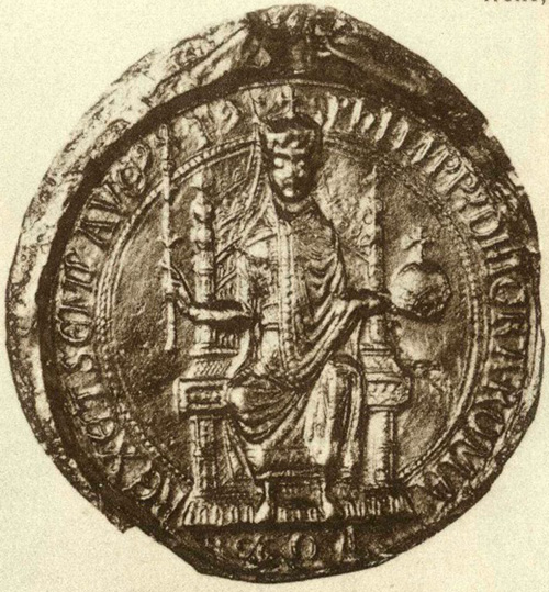 Philip of Swabia